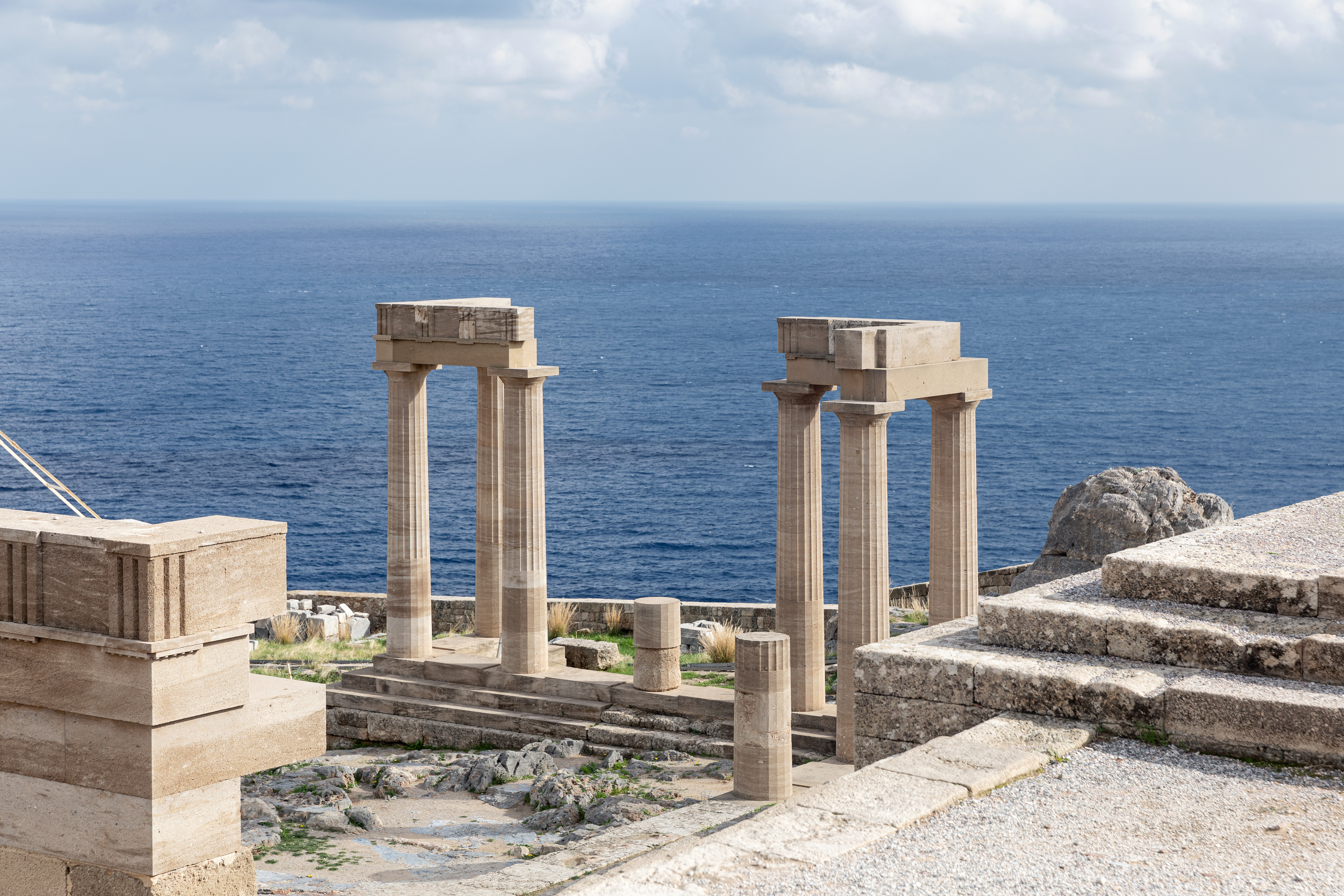 Acropolis of Lindos (Lindos, Rhodes, Greece).